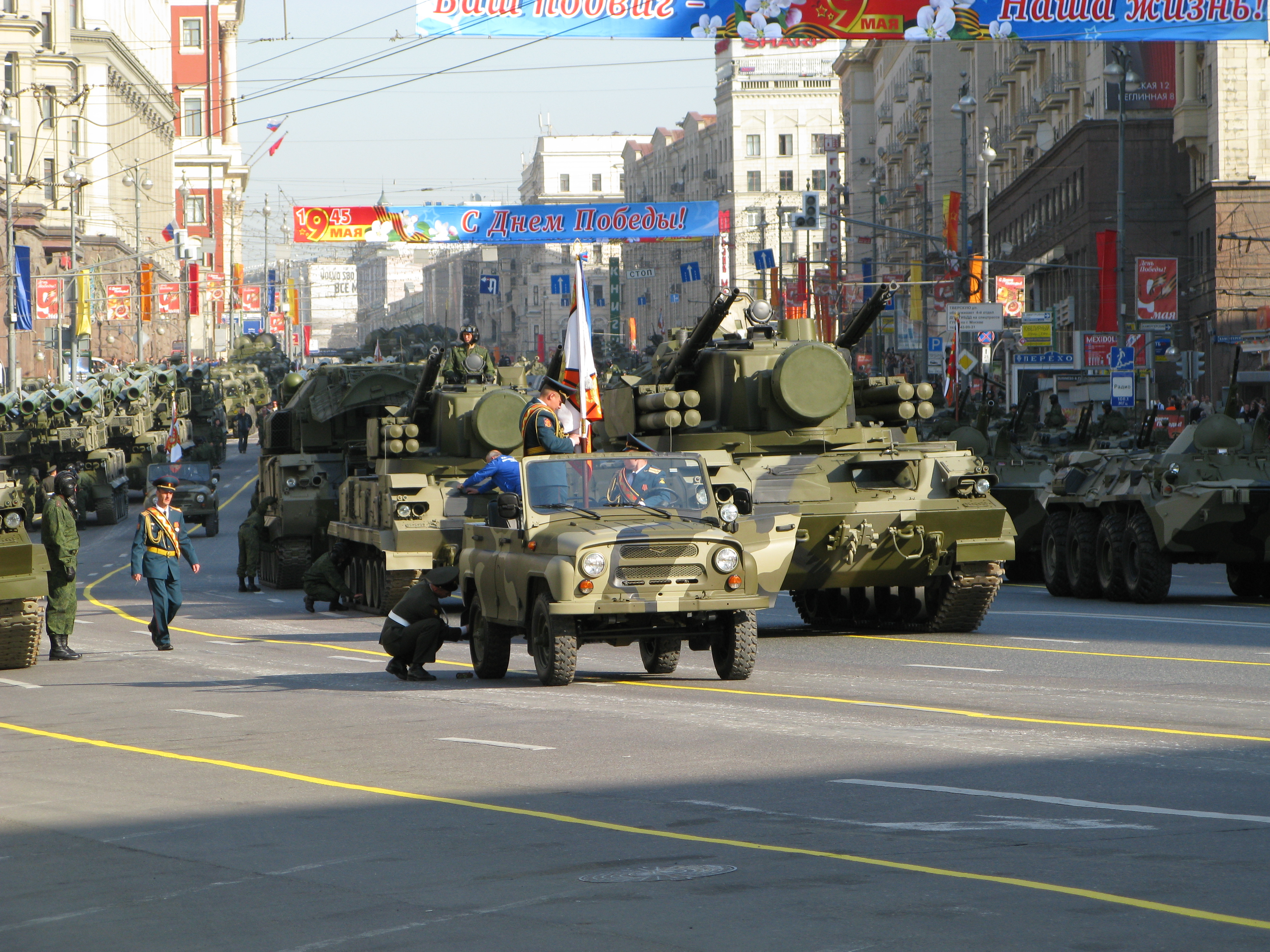 Victory Day Parade Rehearsal, Moscow, Russia, May 5, 2008.